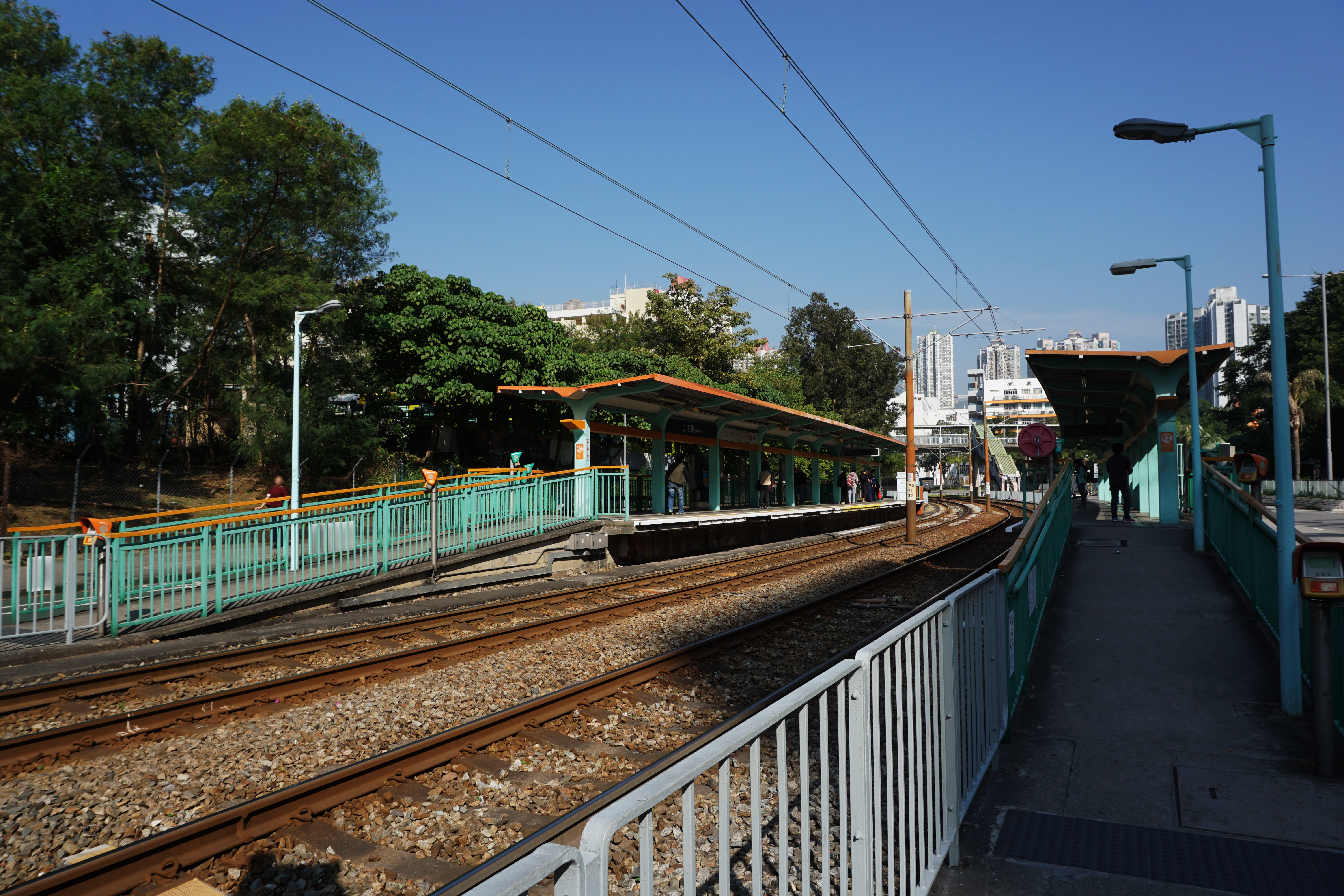 Shek Pai Stop in Tuen Mun, Hong Kong.